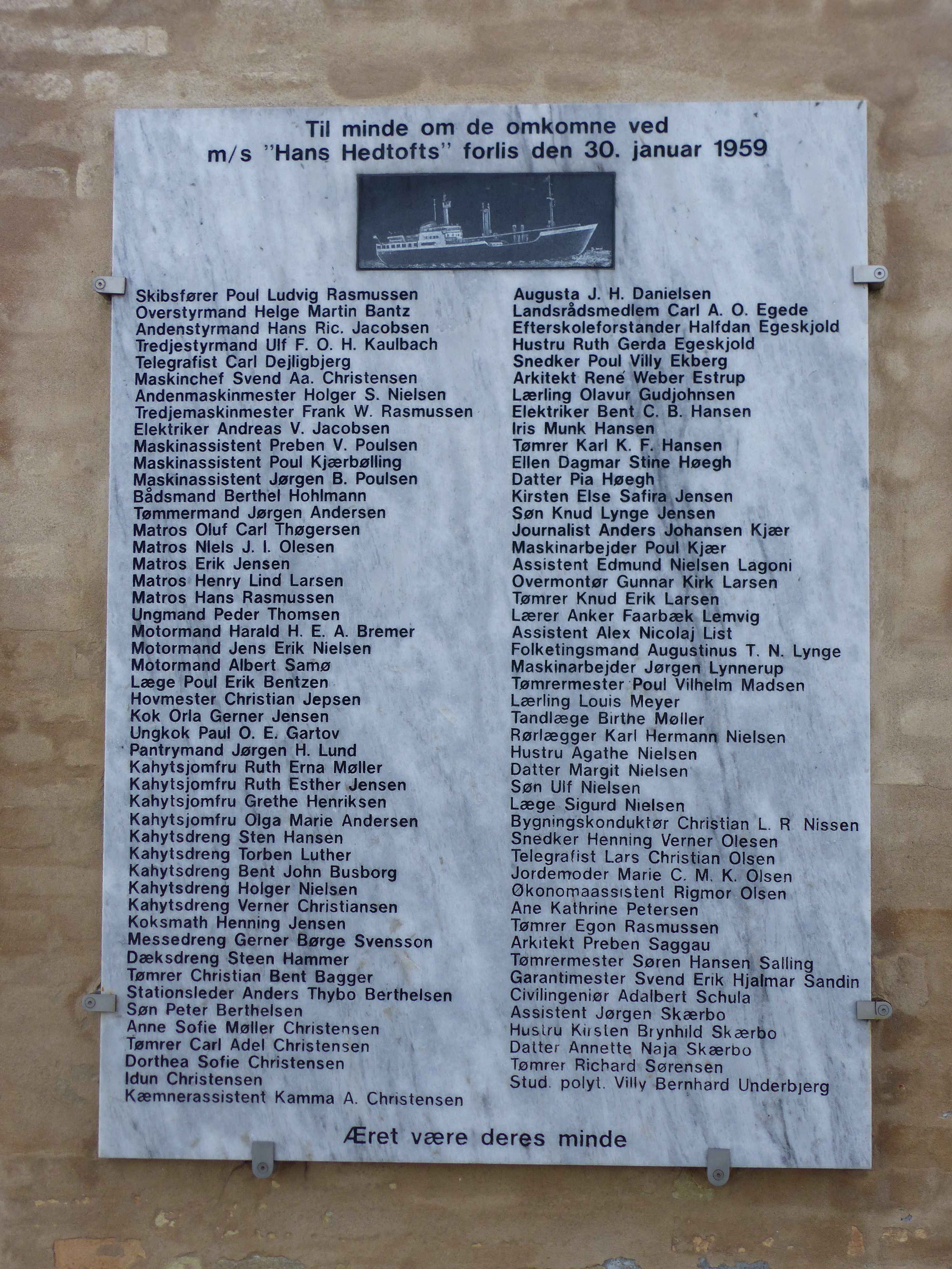 Memory plaque M/S Hans Hedtoft 30. january 1959